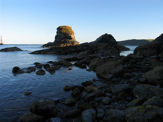 Bay at Charlestown Harbour. A view of the edge of the bay, south of the southern harbour wall.